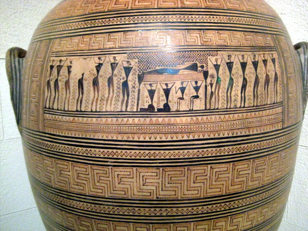 Copy of Dipylon Master's amphora in Pushkin museum